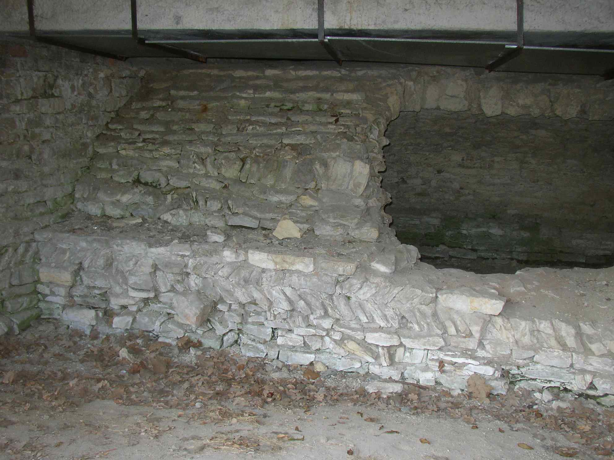 Remains of a bridge from 11th century, connecting royal palace area with SS Peter and Paul basilica in Vyšehrad, Prague, Czech Republic.